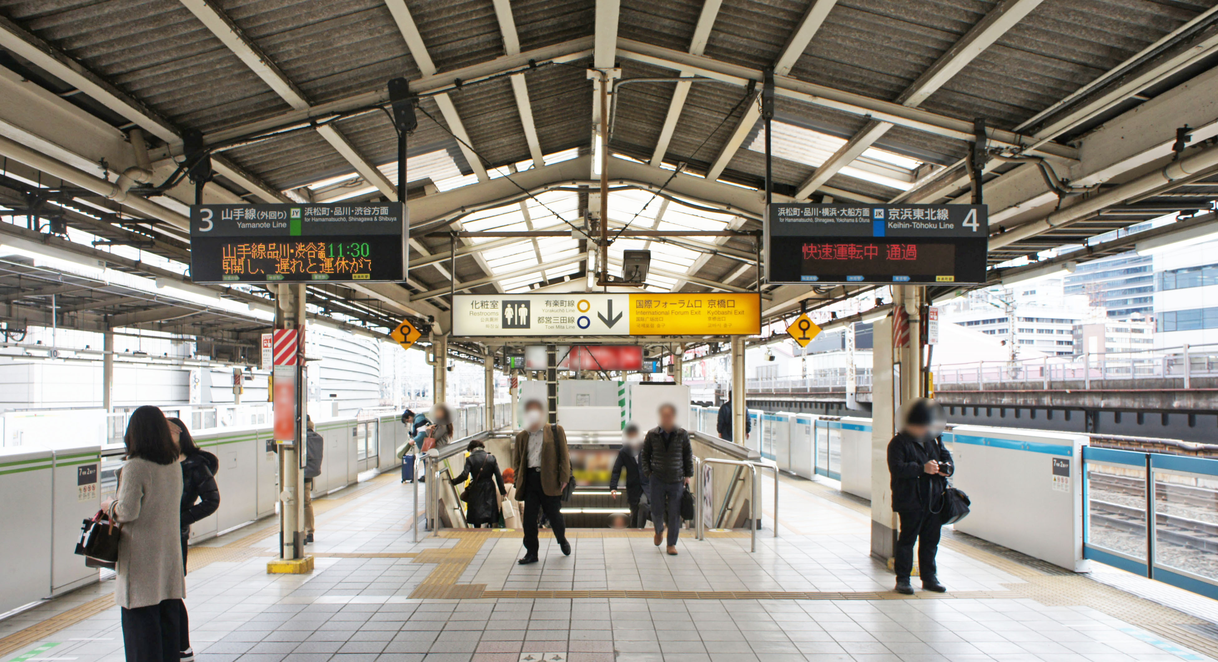 Platform 3・4 of JR Yurakucho Station Sony NEX-3 + E 18-55mm F3.5-5.6 OSS